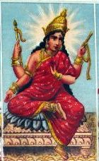 "Album of popular prints mounted on cloth pages. Colour lithograph, lettered, inscribed and numbered 37. The print is subdivided into ten equal parts, each representing one of the ten aspects of Devi, the divine mother. Each image is identified with a Bengali inscription, and the goddesses represented are: Kali, Tara, Shodashi, Bhuvaneshvari, Bhairavi, Chhinnamasta, Dhumavati, Bagalamukhi, Matangi, and Kamala. 2003,1022,0.37, AN804243 "